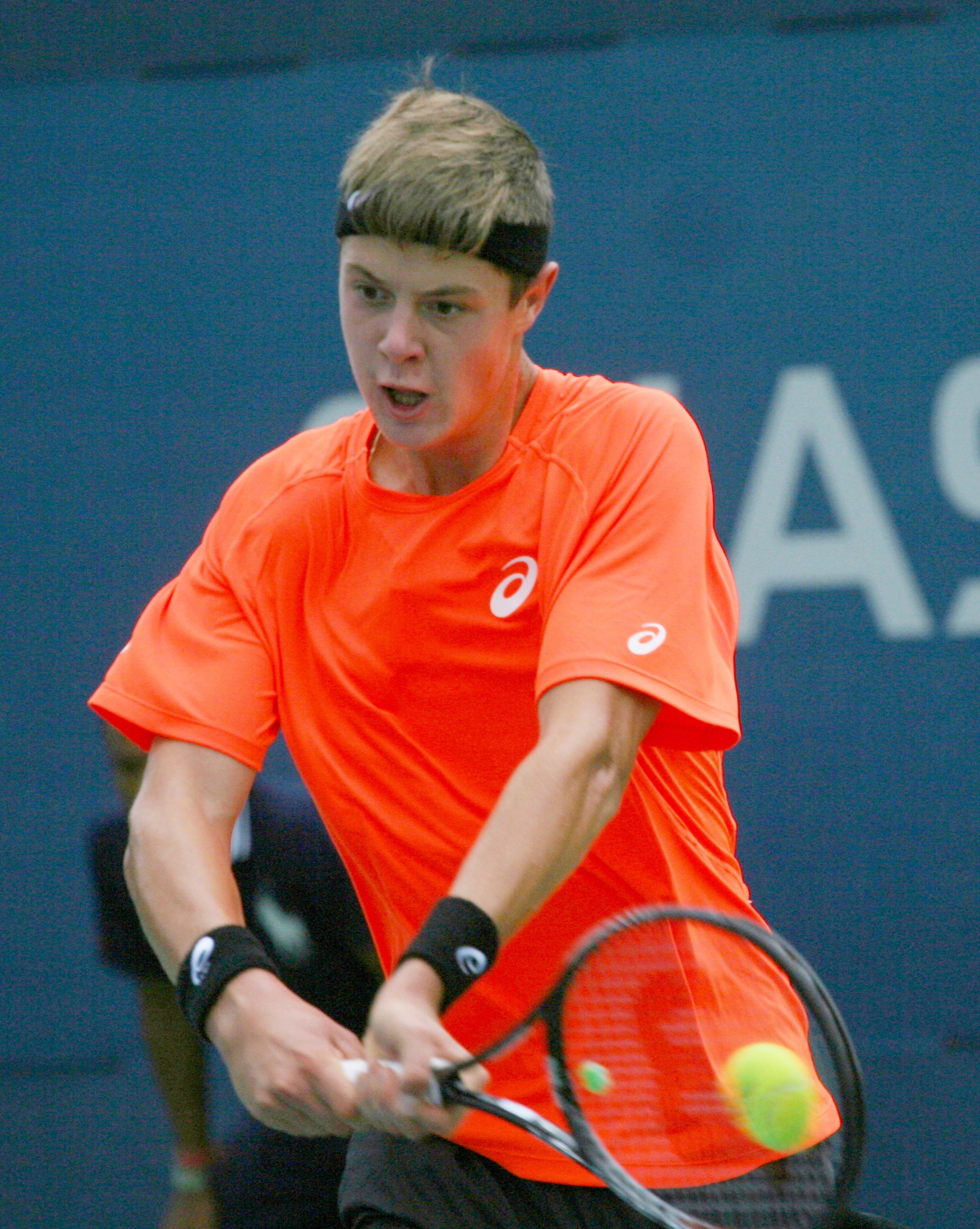 U.S. Open Juniors Monday, Sept. 2, 2013